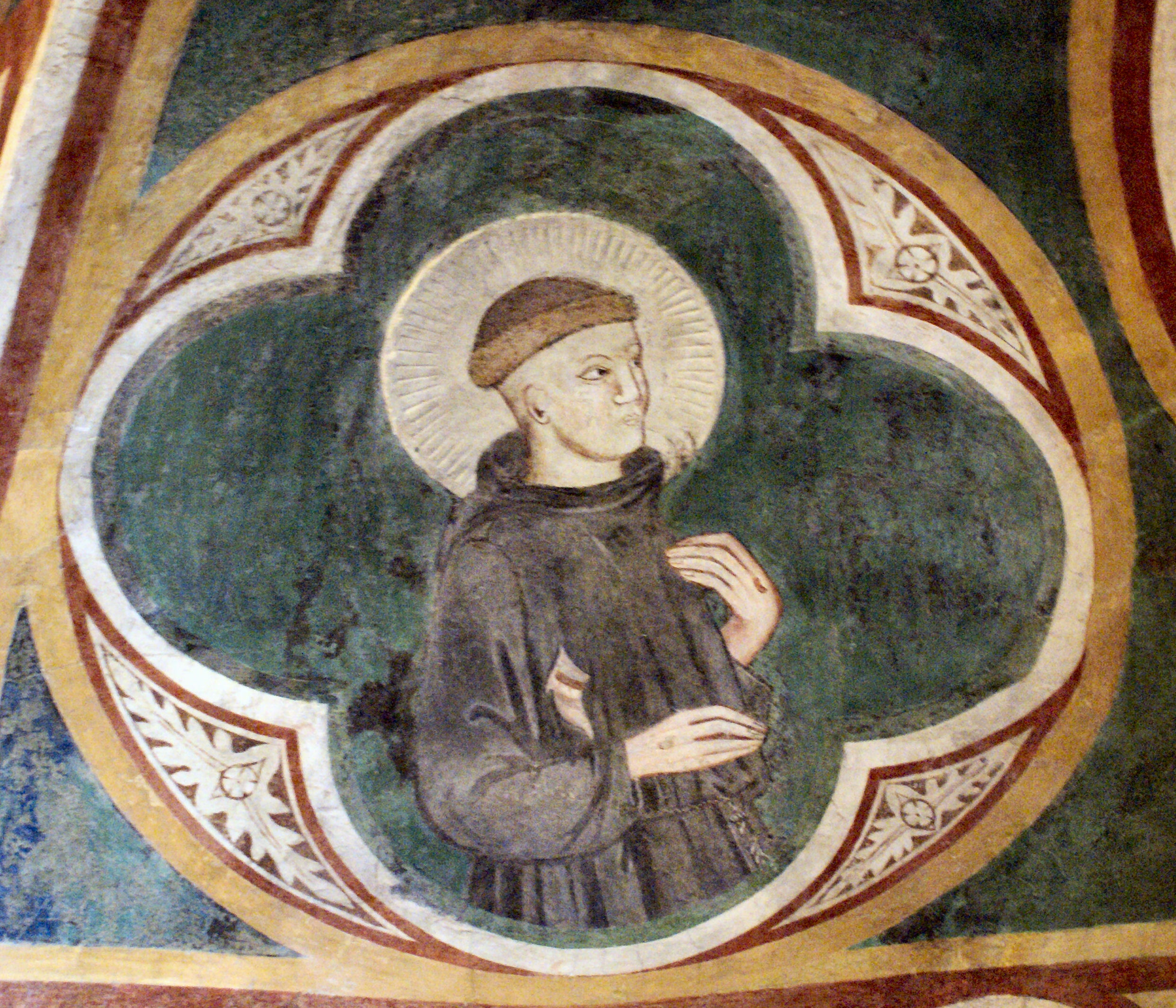 Saint Francis in quatrefoil shape, San Damiano, Assisi